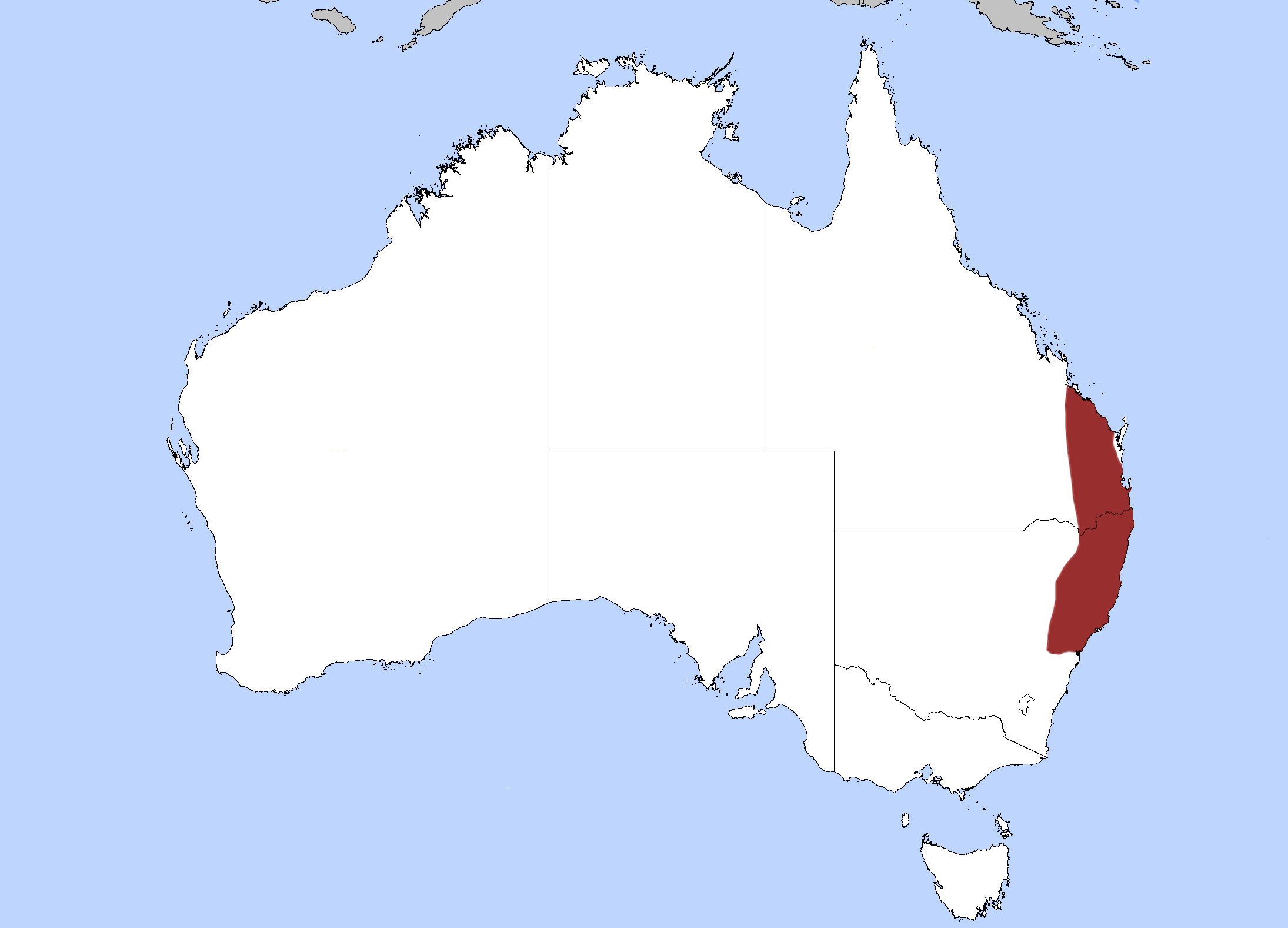 The Distribution of the Western Worm Lerista